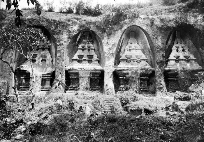 Gunung Kawi near Tampaksiring